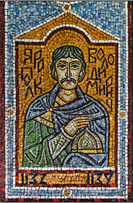 Yaropolk II of Kiev